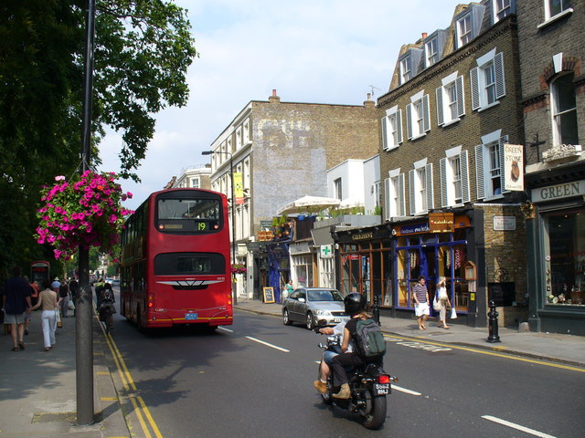 King's Road Trendy ground floor shops and restaurants are built out into the pavement from the upper brick storeys of the old houses.